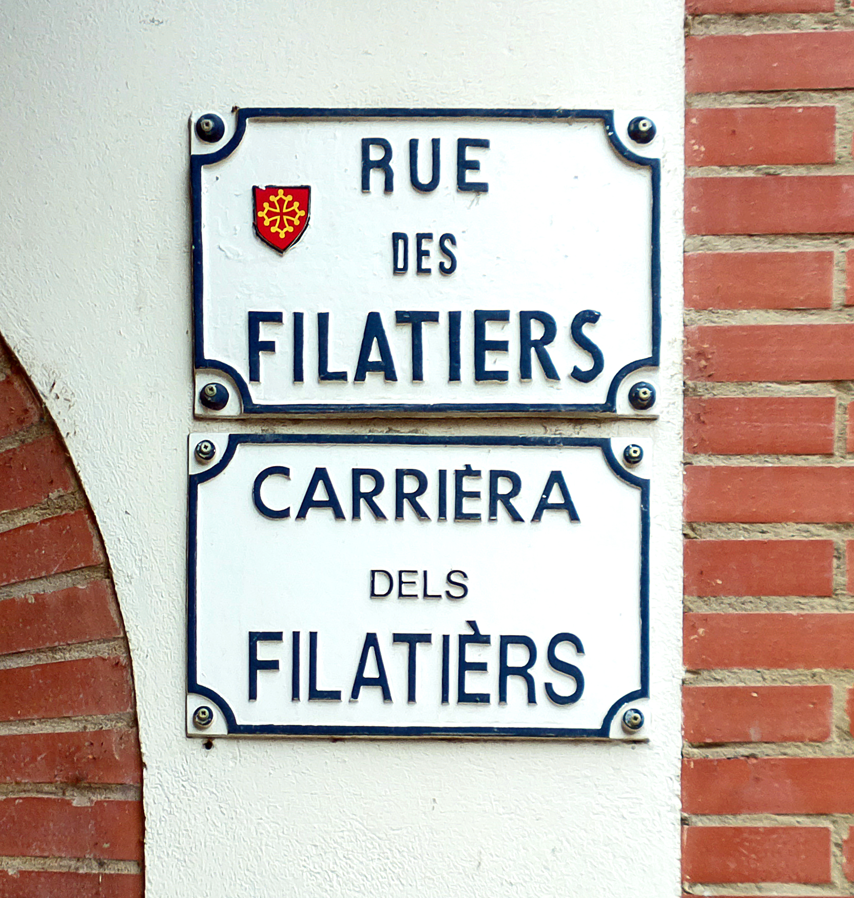 Rue des Filatiers, in Toulouse - Street name sign. They have the particularity of being: in French and Occitan.